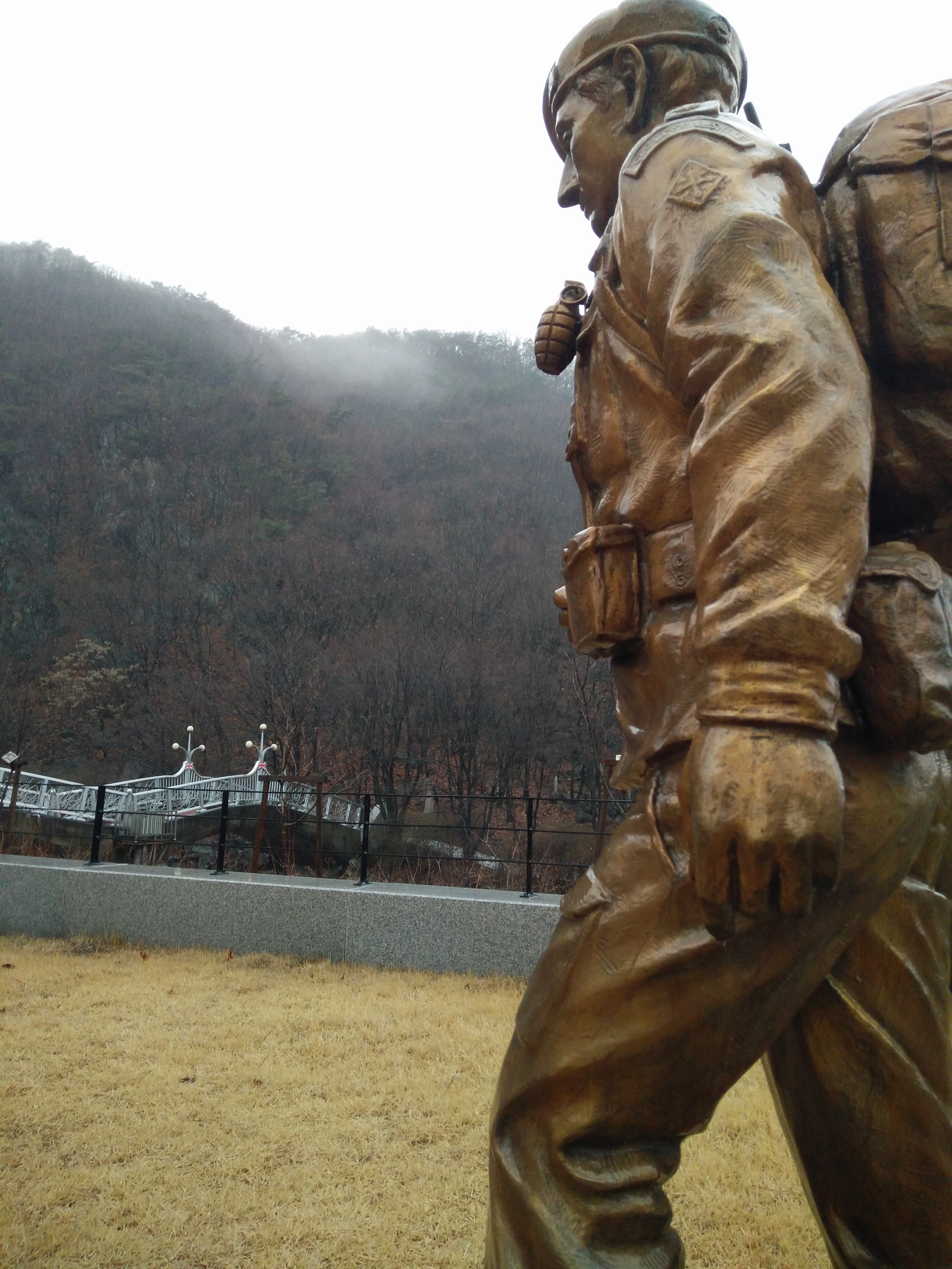 A view of one of the soldiers of the memorial with Gloucester Hill in the background